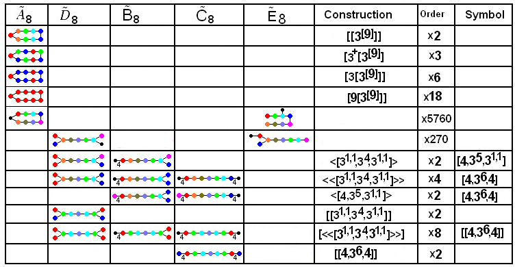 Coxeter-Dynkin diagram table of correspondences and automorphisms